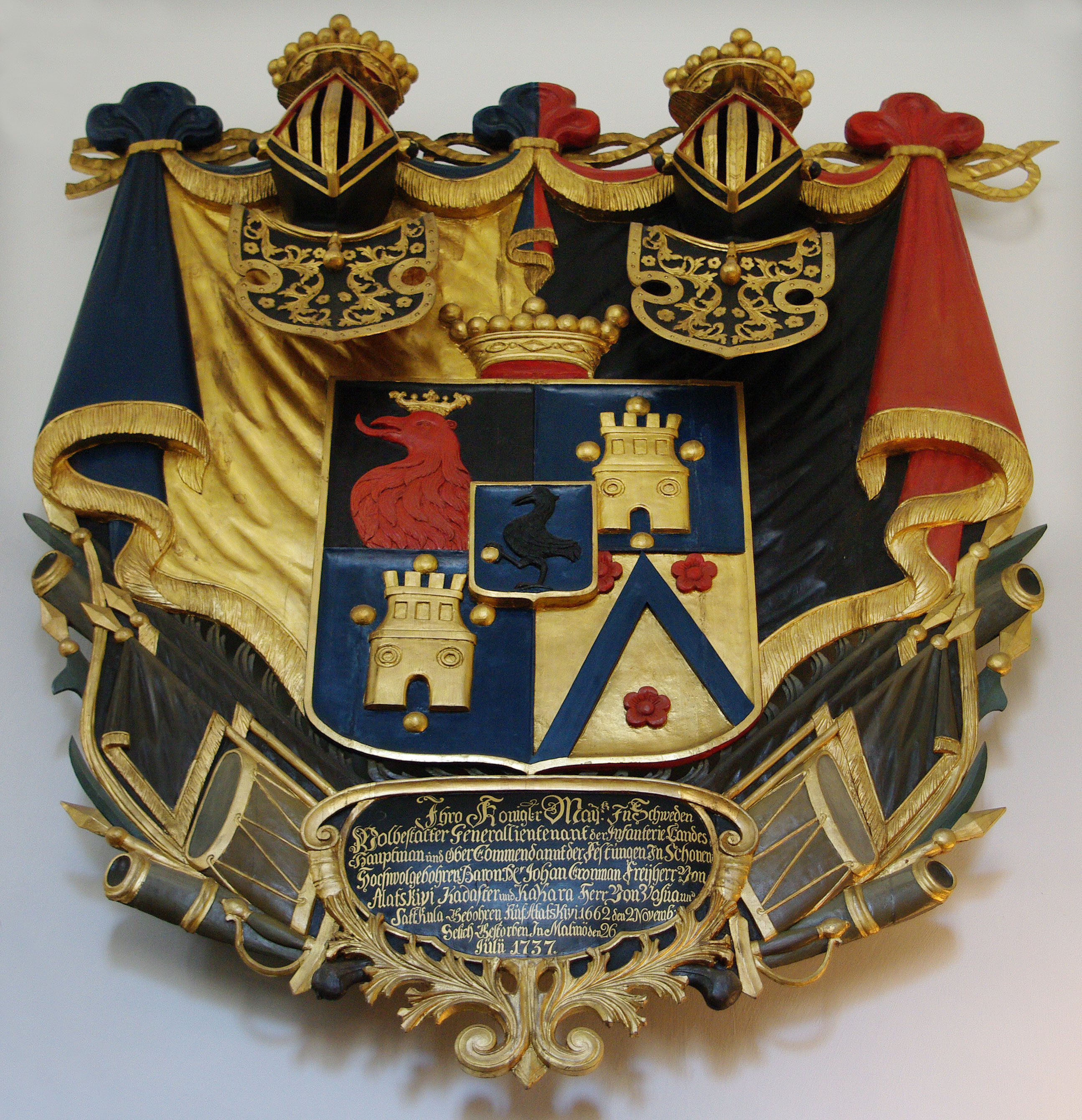 The epitaph of Johan Cronman in Sankt Petri Church, Malmö.